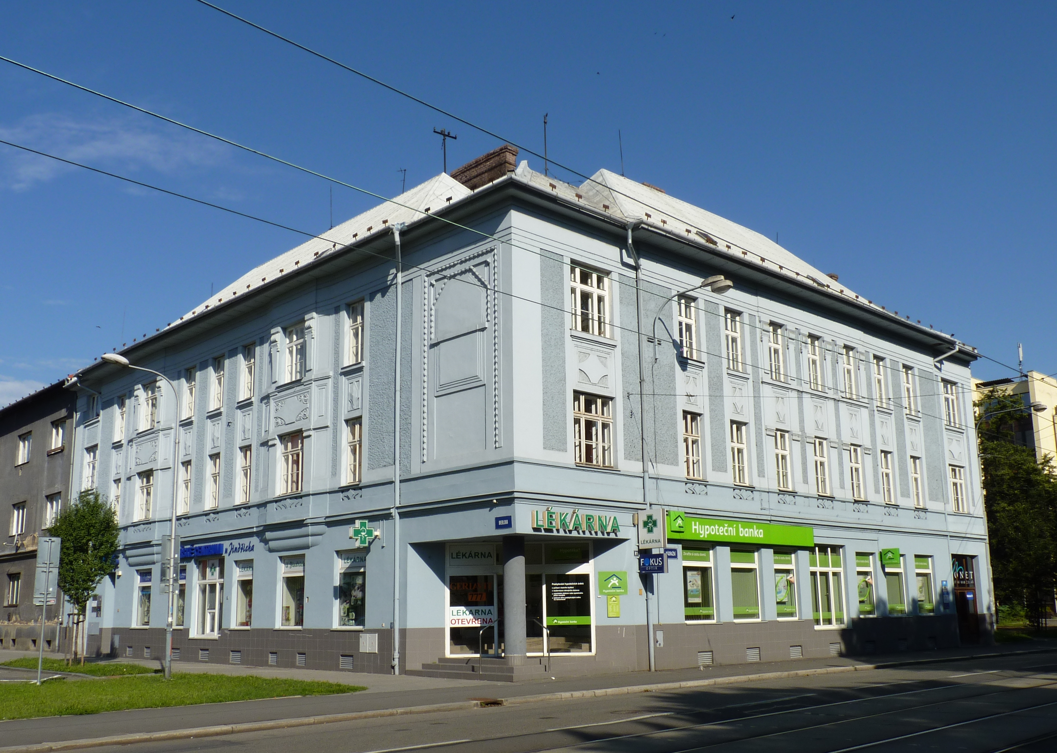 Moravská Ostrava a Přívoz. Ostrava-city District, Moravian-Silesian Region, Czech Republic